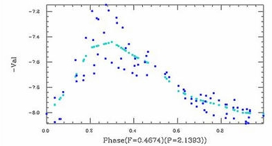 Folded observational data for the double mode Cepheid TU Cas - fundamental period.